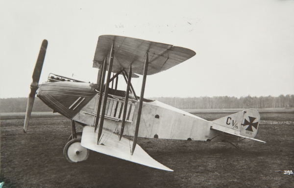 AEG C.V/15